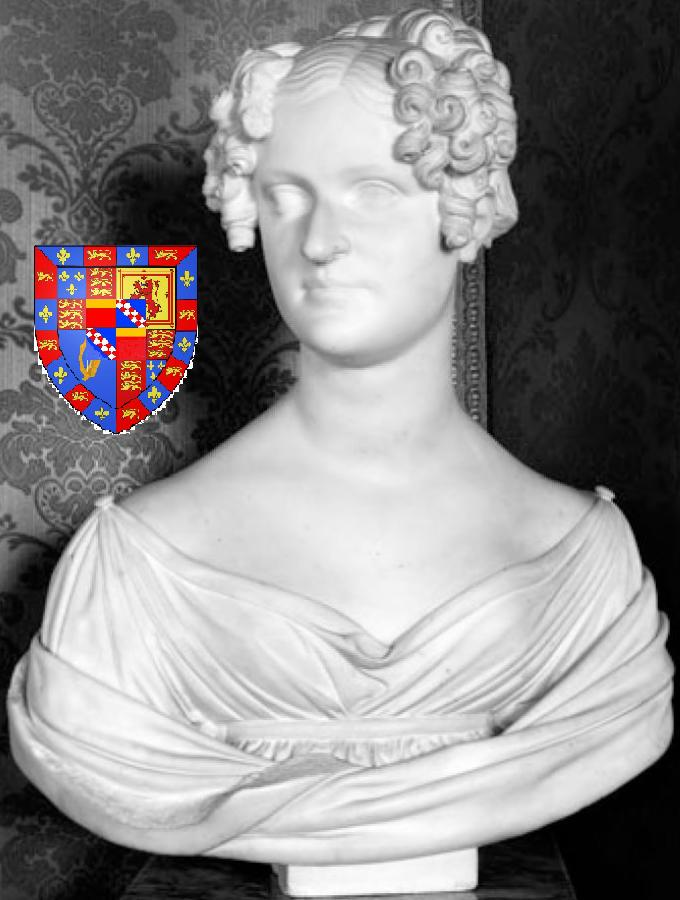 Lorenzo Bartolini (1777–1850) Description Italian sculptor Date of birth/death7 January 177720 January 1850Location of birth/deathSavignanoFlorenceAuthority control VIAF: 66738120 LCCN: n79066690 GND: 11882953X BnF: cb149678441 ULAN: 500002243 ISNI: 000000006630178X WorldCat WP-Person